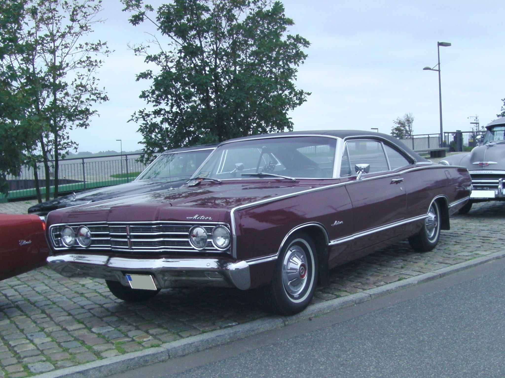 A Meteor car